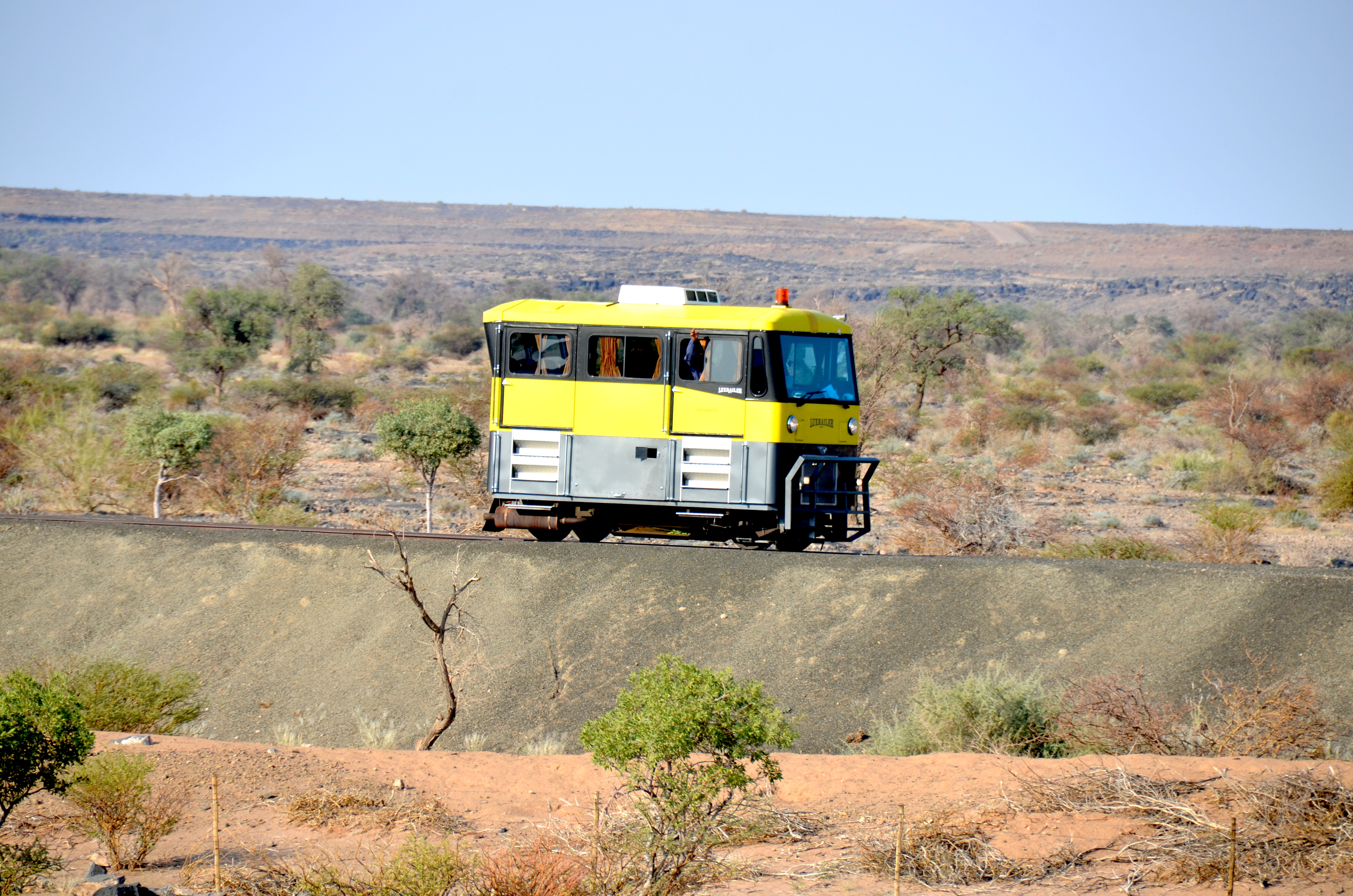 A draisine passes from Seeheim to Aus at Station Simplon (25 April 2017)